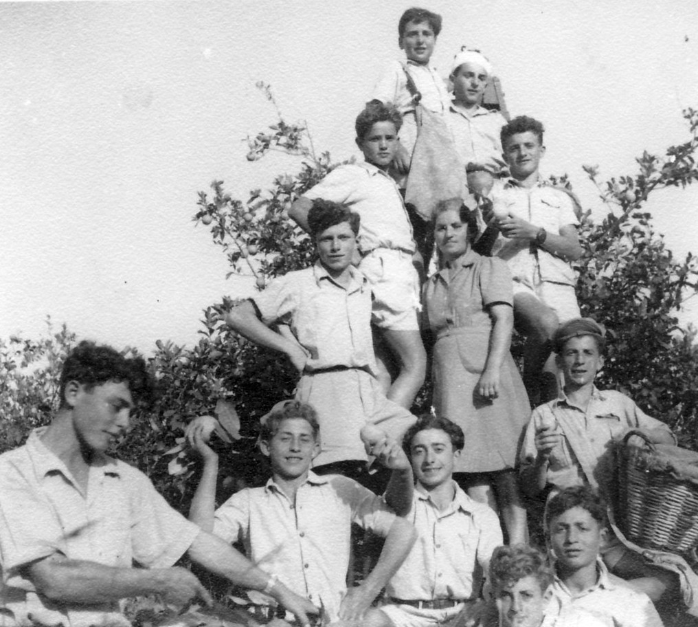 Gan-Shmuel - picking orange in the orchard - 1946, Agriculture in Israel